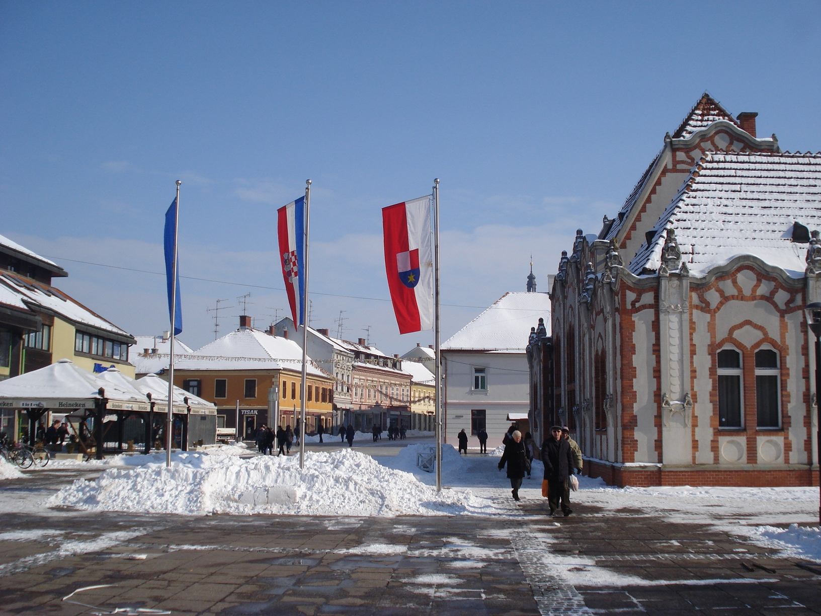 The Town of Čakovec, Croatia, in winter - Republic Square